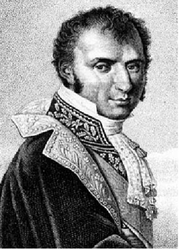 Dominique, Vincent Ramel de Nogaret (1760-1829) Minister of Finance during the French Directory